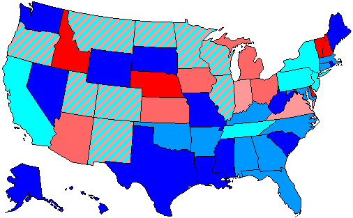 Summary of party control of U.S. house seats in the 92nd United States Congress following the 1970 election. Stripes indicate a tie between two or more parties. Legend: 80.1-100% Democratic seat majority 60.1-80% Democratic seat majority 60% or less Democratic seat plurality 60% or less Republican seat plurality 60.1-80% Republican seat majority 80.1-100% Republican seat majority